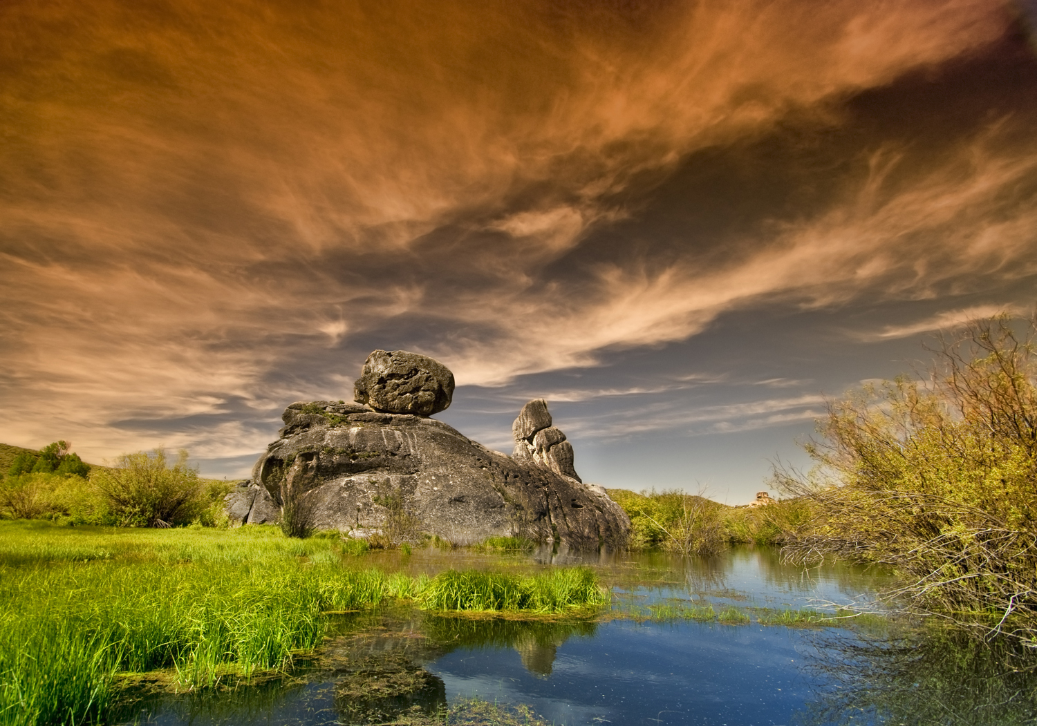 A spring in Castle Rocks State Park, Idaho. While the time was mid-morning, my tobacco filter helped to get some color in the sky, To see other images from this same trip, please visit my personal Website gallery at